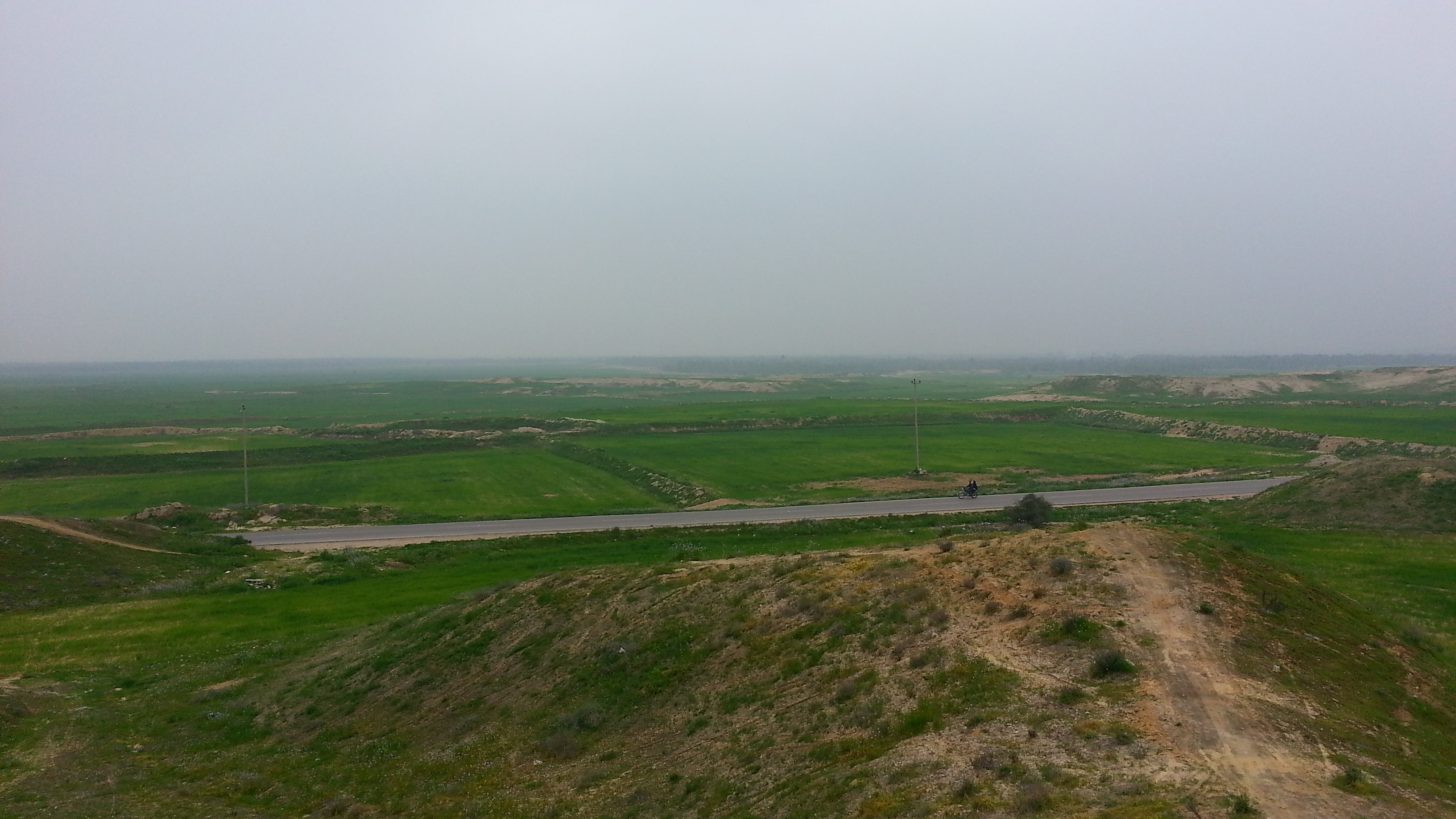 محوطه باستانی محمدآباد